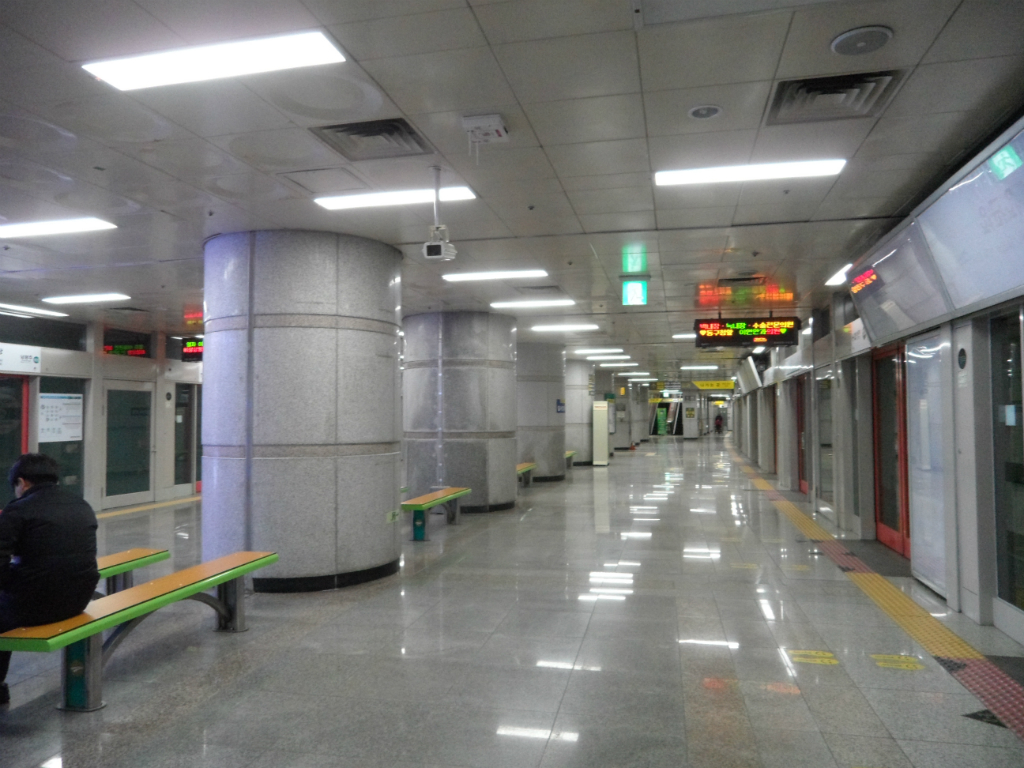 Platform of Culture Complex Station